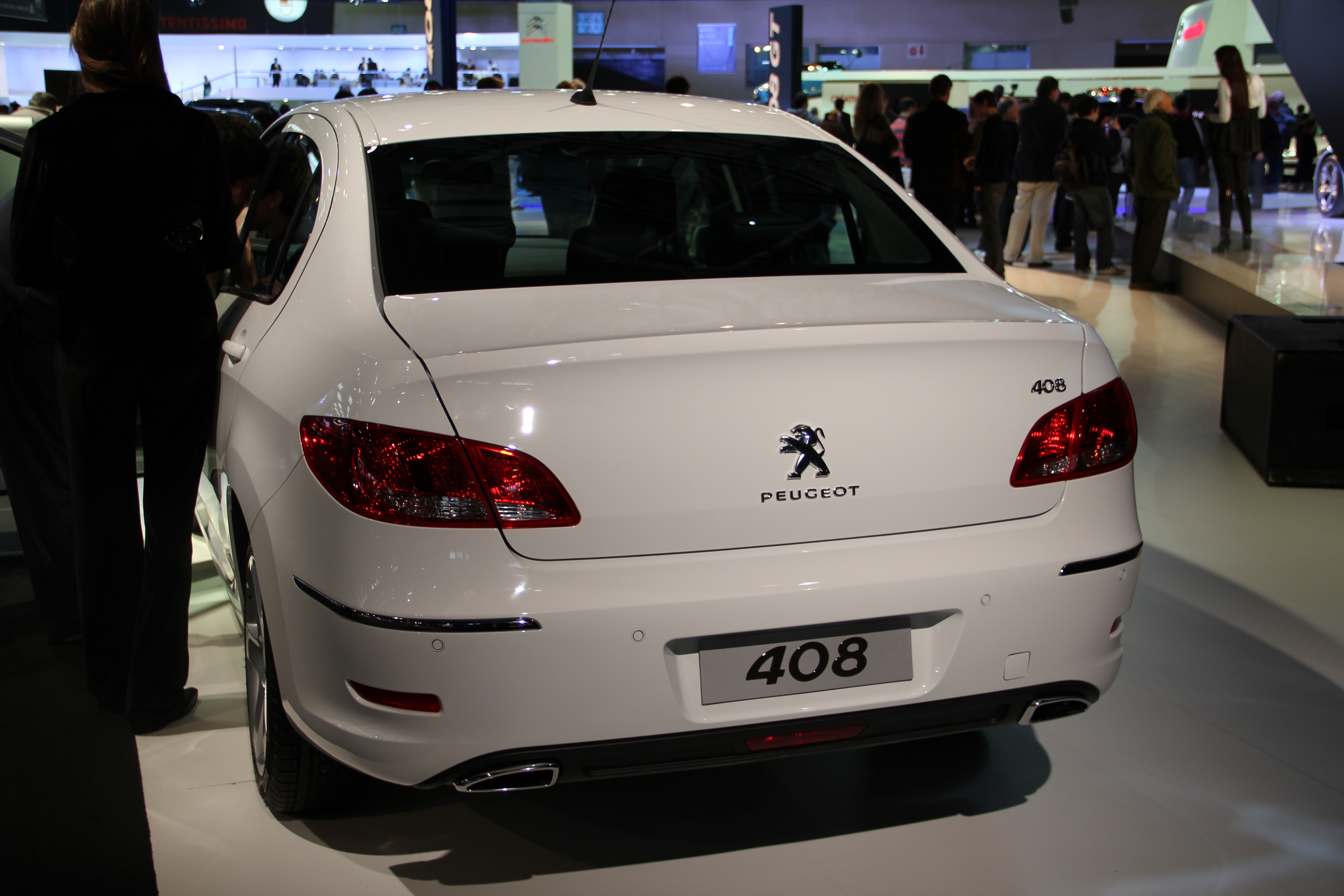 Peugeot 408 Feline at 2011 BA Motor Show